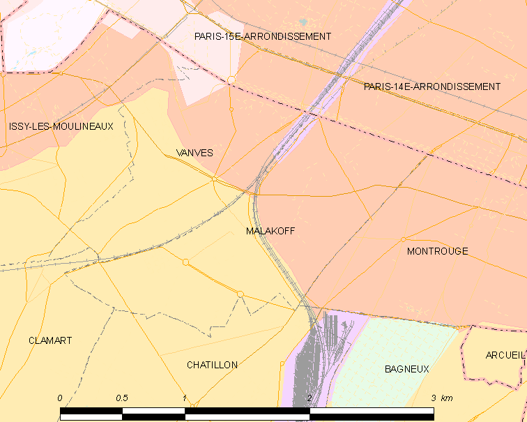 Map of French municipality Malakoff